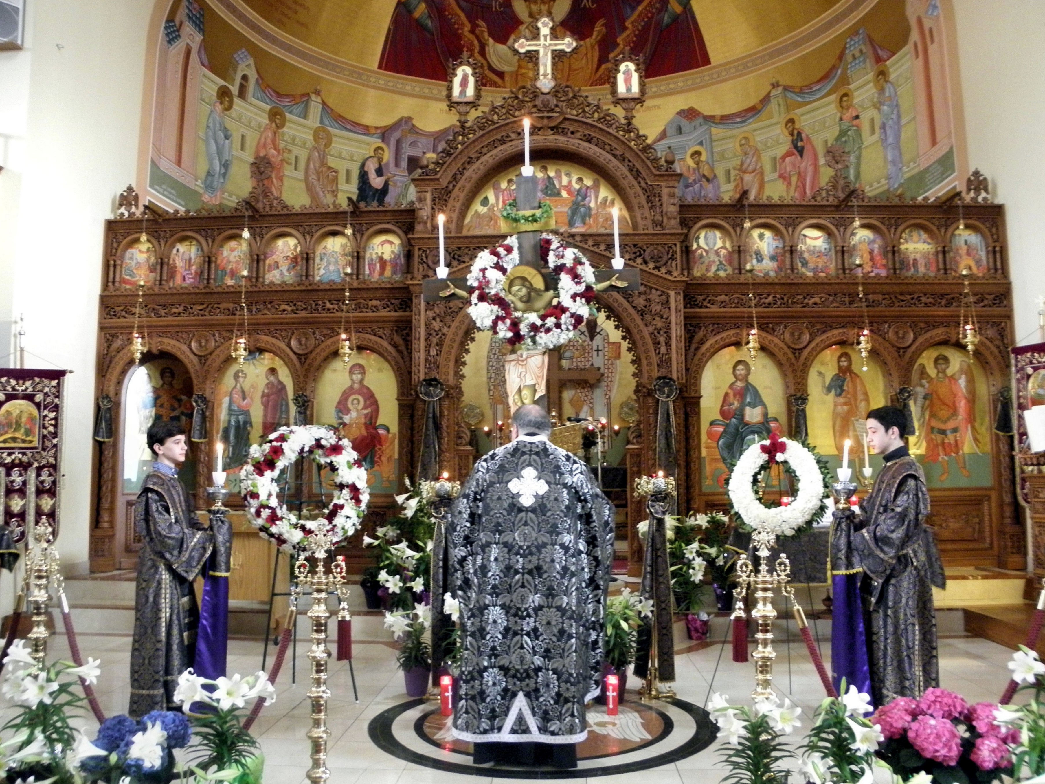 Vigil during the Service of the Royal Hours (Greek: Ακολουθία των Μεγάλων Ωρών ) on Great and Holy Friday, the "Pascha of the Cross", during which all of the Hours — 1st, 3rd, 6th, and 9th, as well as the Typical Psalms — are sung as one service. The priest is chanting the following famous Byzantine antiphon: "Today is hung upon the Cross, He who suspended the Earth amid the waters. (three times) A crown of thorns crowns Him, Who is the King of Angels. He Who wrapped the Heavens in clouds, is clothed with the purple of mockery. He who freed Adam in the Jordan, is slapped in the face. He was transfixed with nails, Who is the Bridegroom of the Church. He was pierced with a spear, Who is the Son of the Virgin We venerate Your Passion, O Christ (three times) Show us also Your glorious Resurrection." Annunciation of the Virgin Mary Greek Orthodox Cathedral, Toronto, 2014.